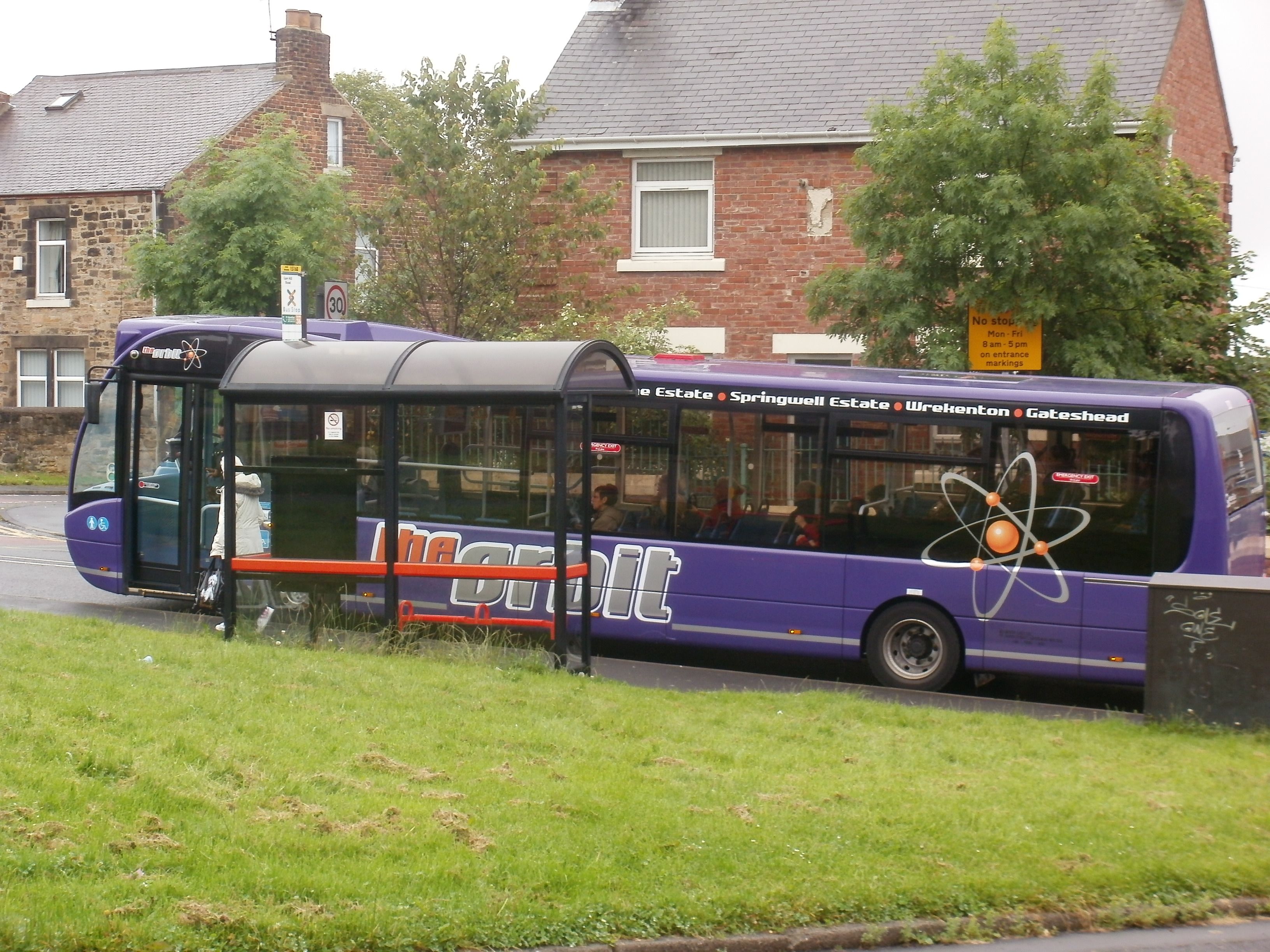 The Orbit 52 bus stops at Carr Hill Road, outside Carr Hill Primary School, in Gateshead